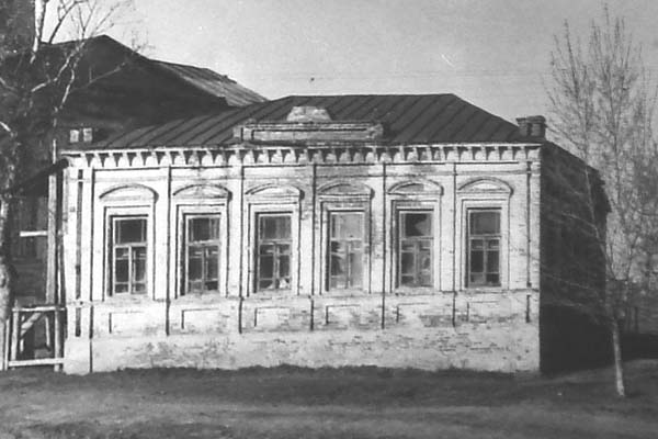 Drakino_Parish_Shcool